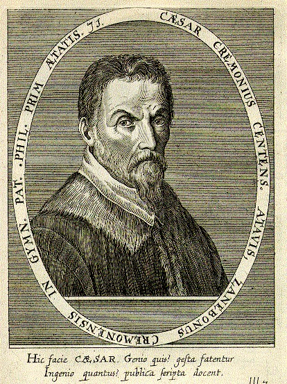 Italian philosopher Cesare Cremonini (1550-1631)